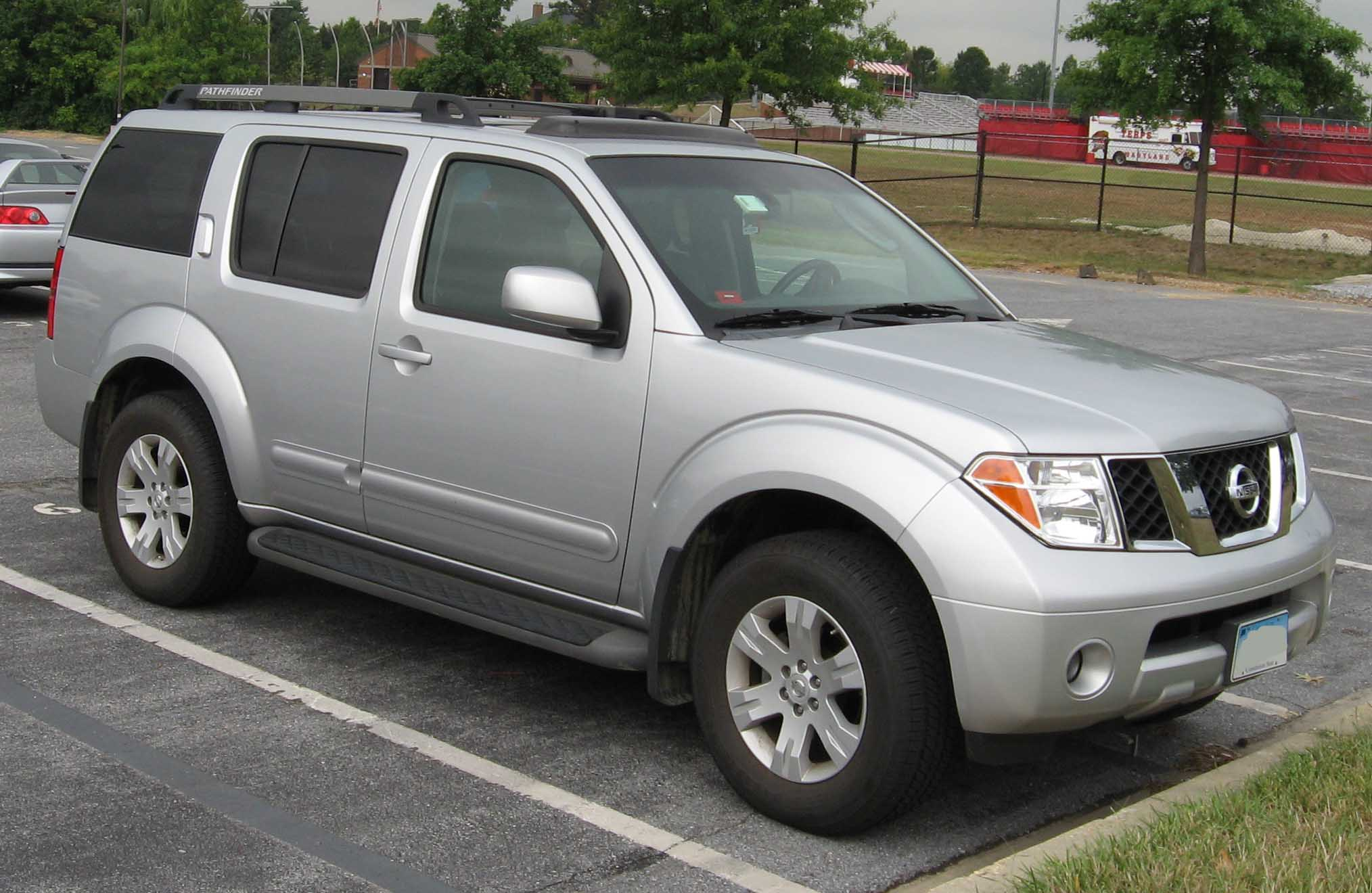 2005-2007 Nissan Pathfinder photographed in USA.